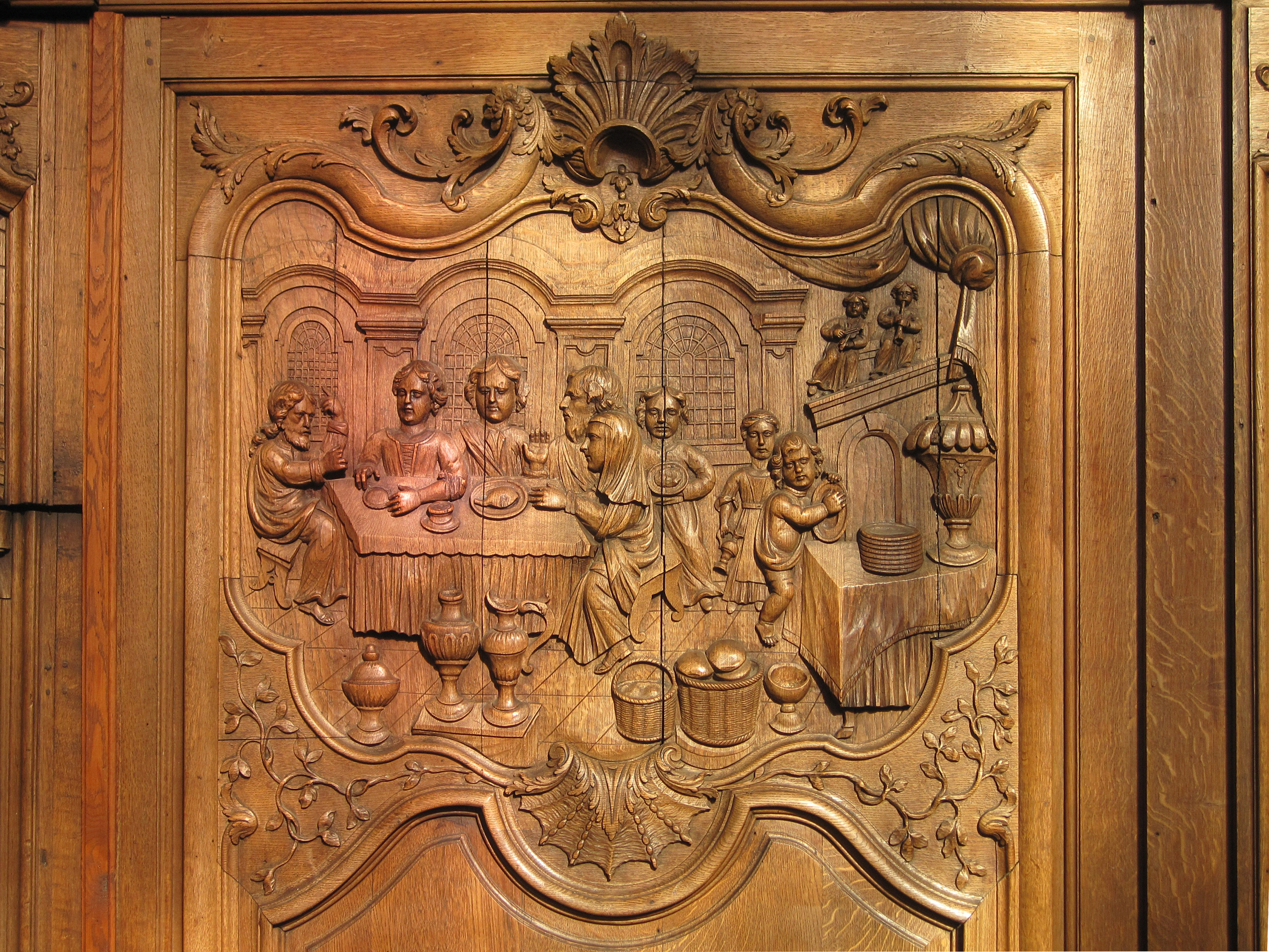 Carved oak panel in the Louis XIV style adorning the stalls of the Saint-Hilaire church in Givet (Ardennes department, France). Walon: Panau d'tchin.ne di stîle Louis XIV gârnichant lès stales di l'èglîje Sint-Ilaîre a Djivet (dèpartèmint dès Ârdènes, France).